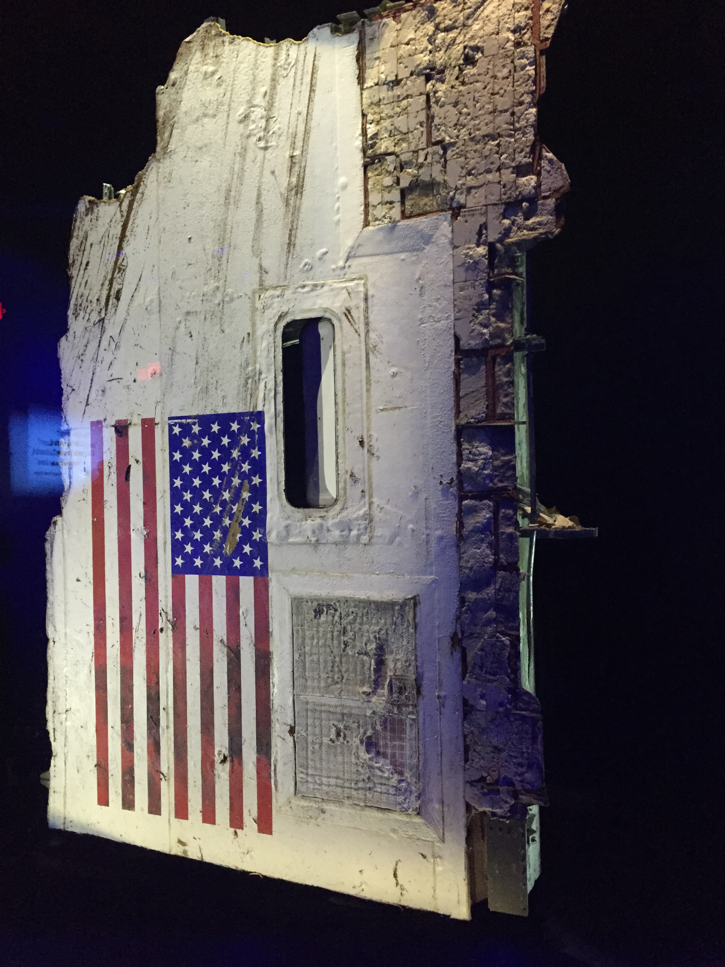 Challenger fuselage display at the Kennedy Space Center Visitor Complex.